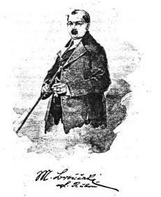 Viktor Oliva: Ilustration of "Mr. Brouček's Trip to the Moon" (by Svatopluk Čech)